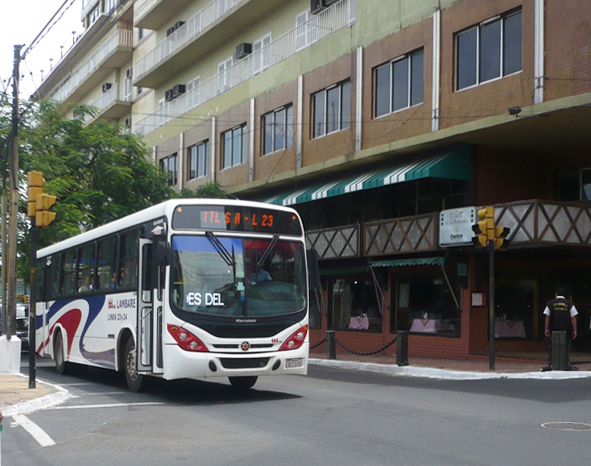 Paraguayan urban bus, cross the avenue in Asuncion Downtown.